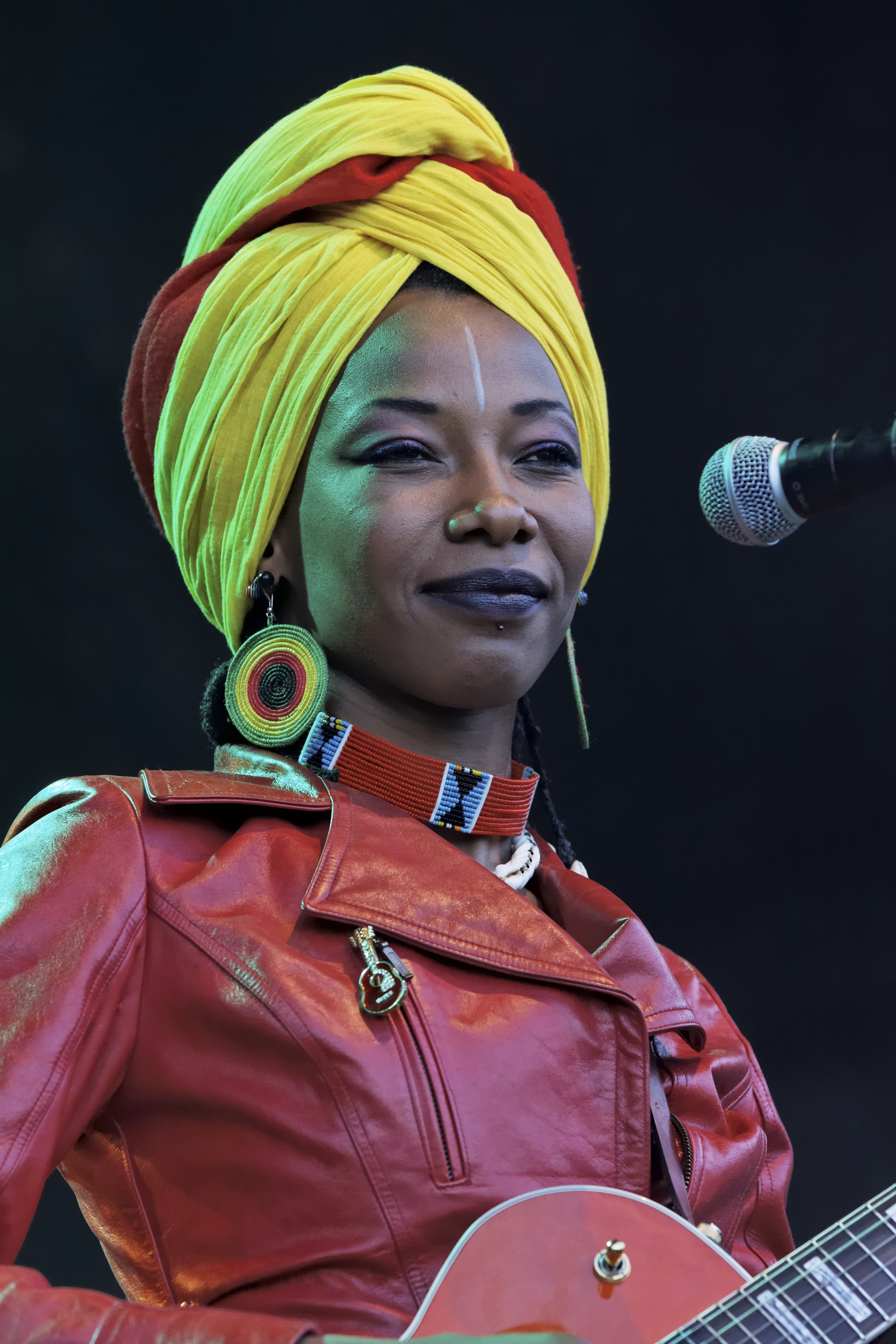 Fatoumata Diawara in concert on the Kermarrec stage at Festival du Bout du Monde in Crozon in Brittany (France).